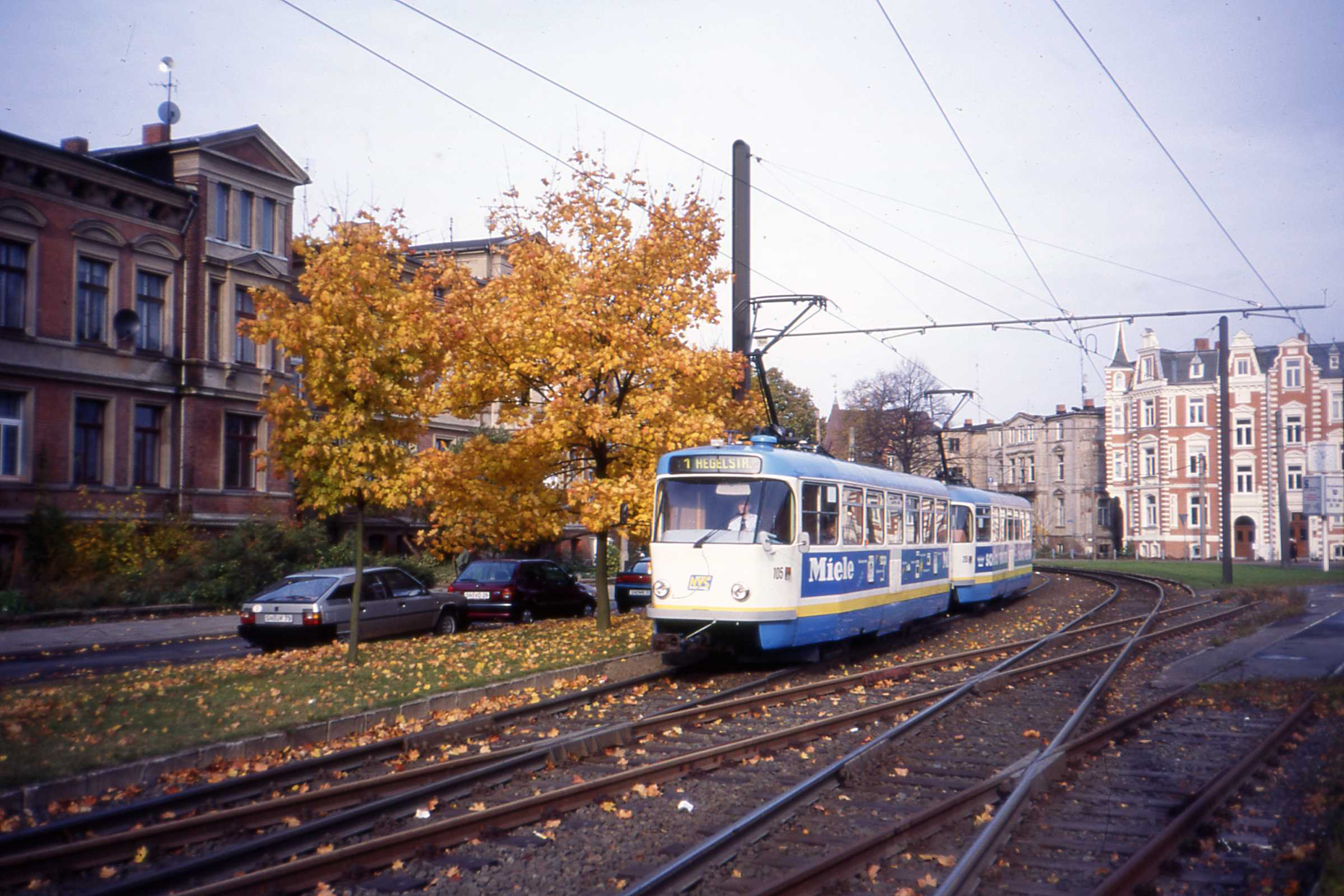 A normal gauge system with much reserved track operates in Schwerin. A pair of Tatra motor cars are travelling on Route 1 to Hegelstraße past some rather grand villas. Pair 105/205 are 1976 Tatra T3 trams, modernised in 1993, and sold to Dnepropetrovsk in Ukraine in 2003.